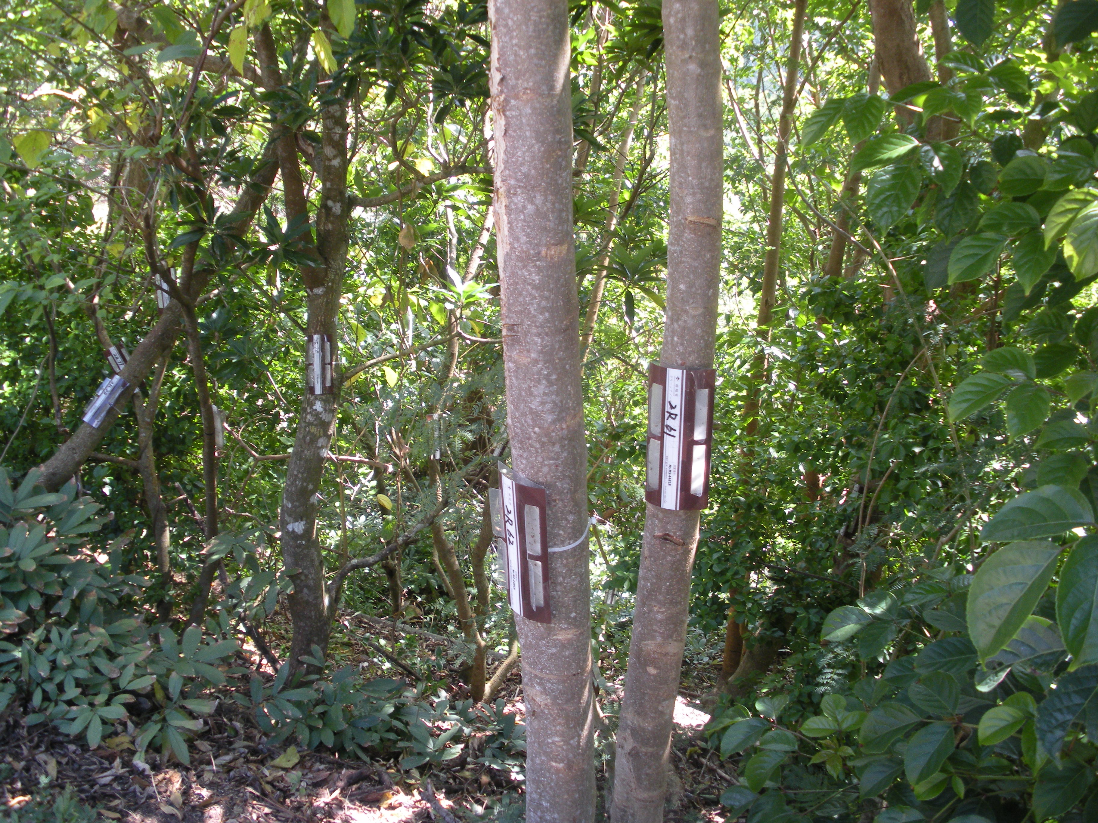 Lizard Trap in Japan Bonin Islands hahajima Island